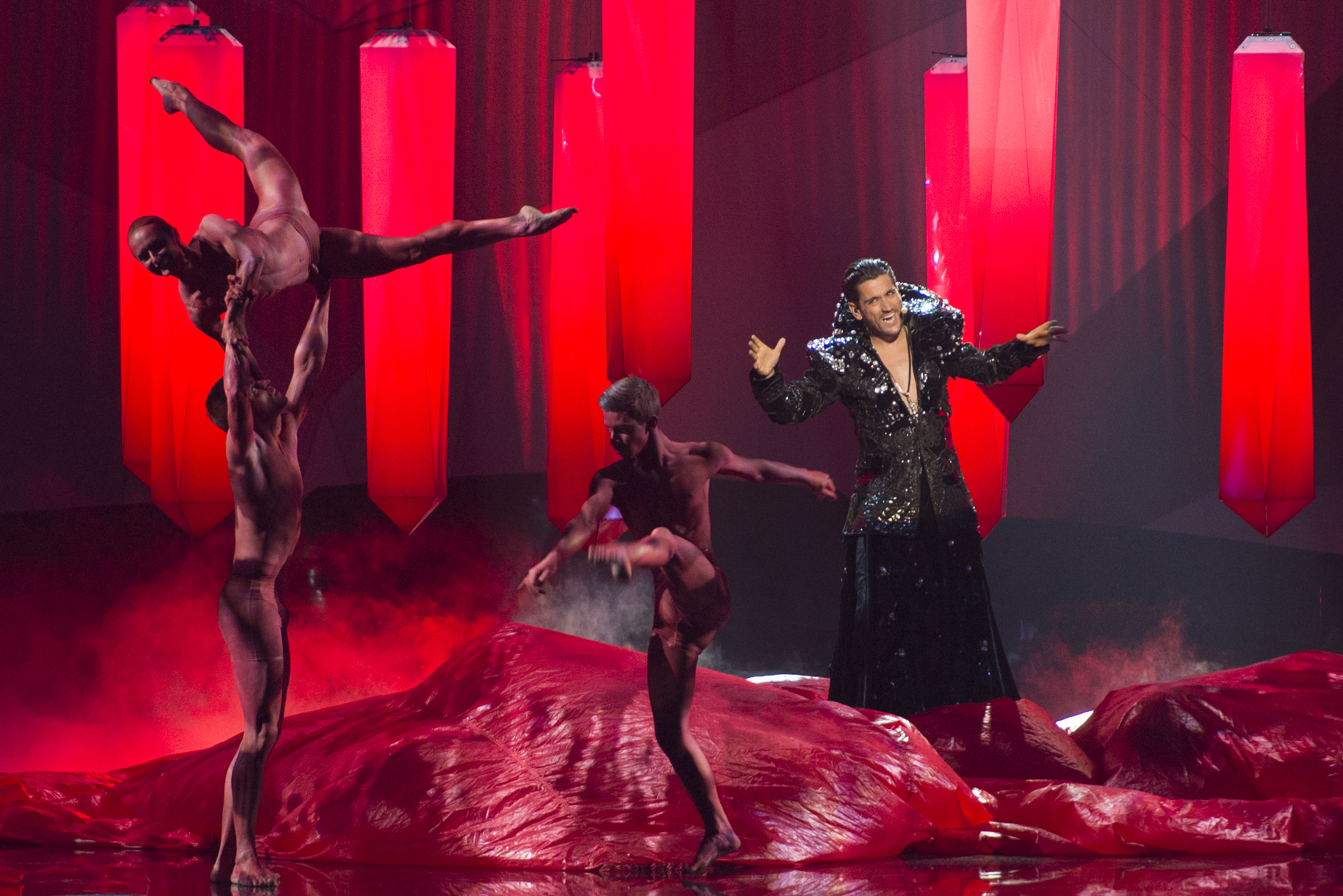 Cezar representing Romania with the song "It's My Life" during the second dress rehearsal of the second semi final of the Eurovision Song Contest 2013 in Malmö. (Help translate this text)